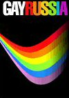 Logo of LGBT Human Rights Project Gayrussia.ru which can be seen on the homepage of the organization at